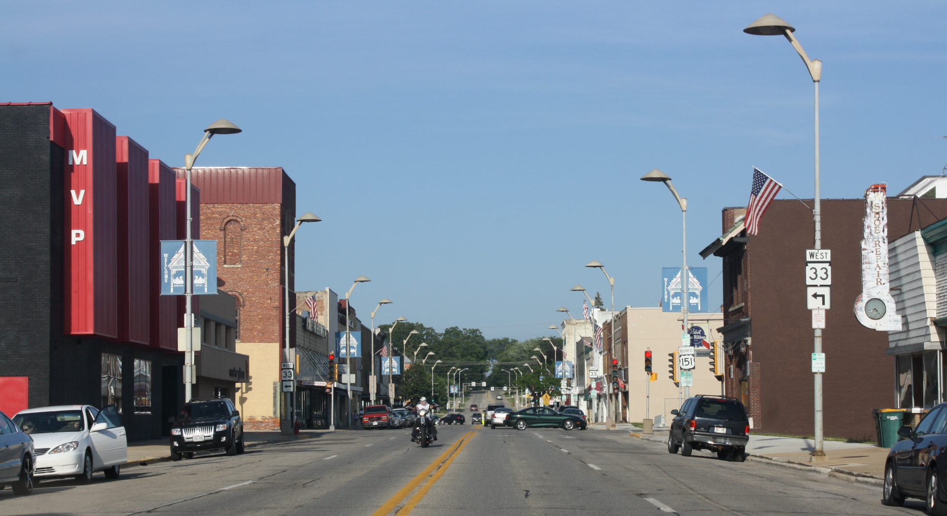 Looking east at downtown Beaver Dam, Wisconsin along Wisconsin Highway 33.